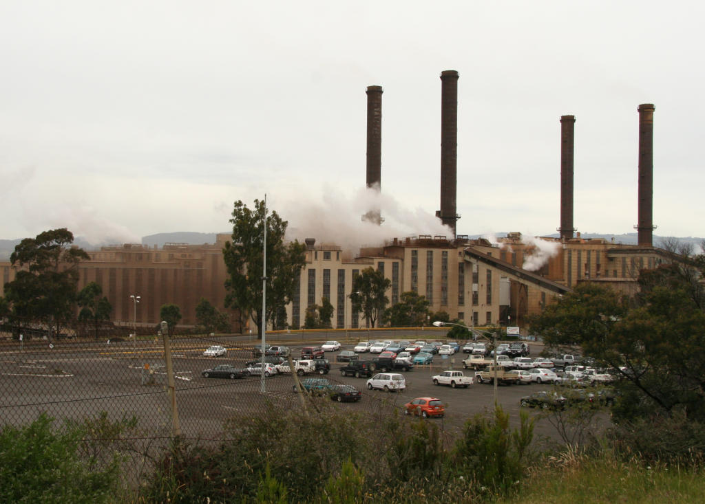 Energy Brix Power Station, Victoria, brown coal fired power station and briquette factory.